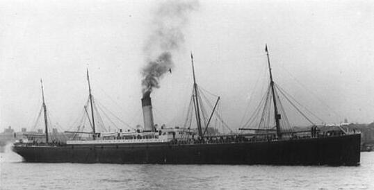 Photograph of the SS Armenian